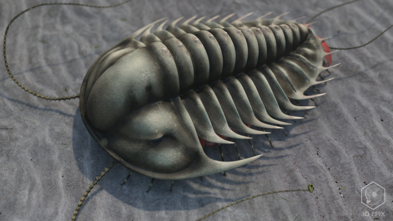 3D Reconstruction of Cambrian trilobite Olenoides serratus